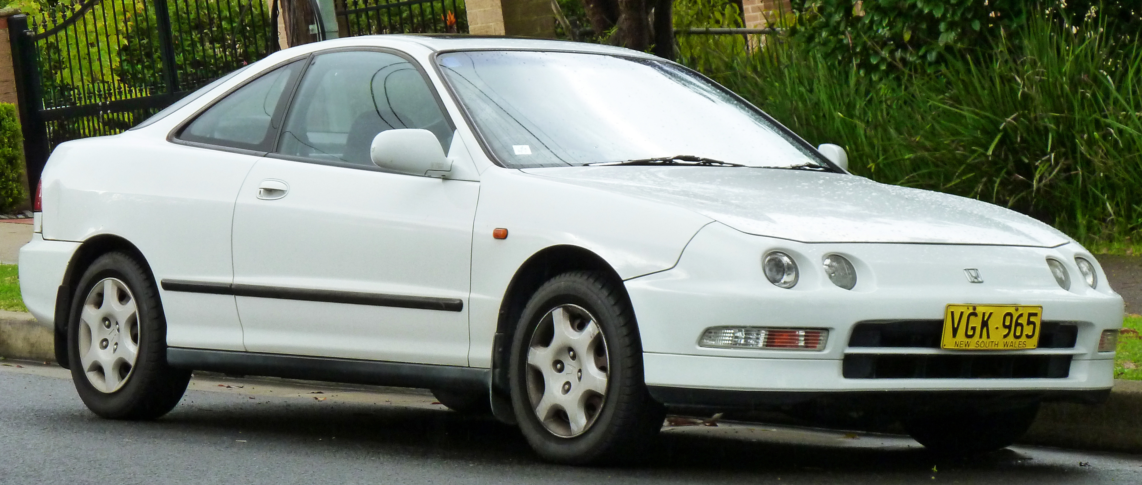 1994 Honda Integra GSi coupe. Photographed in Roseville, New South Wales, Australia.